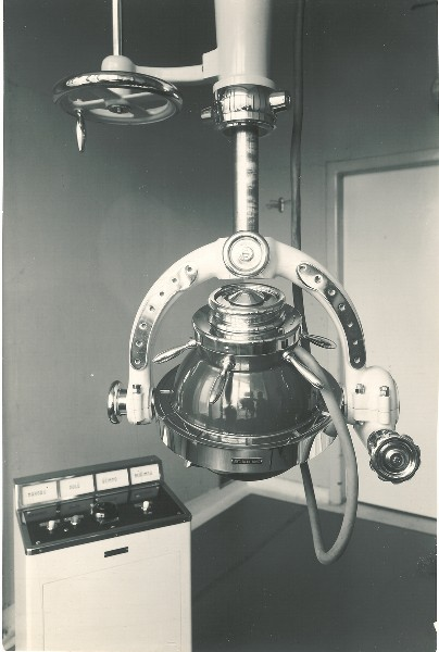 Starý rentgen